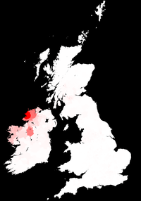 Surname distribution map of Gallagher in Britain, Ireland and Mann.